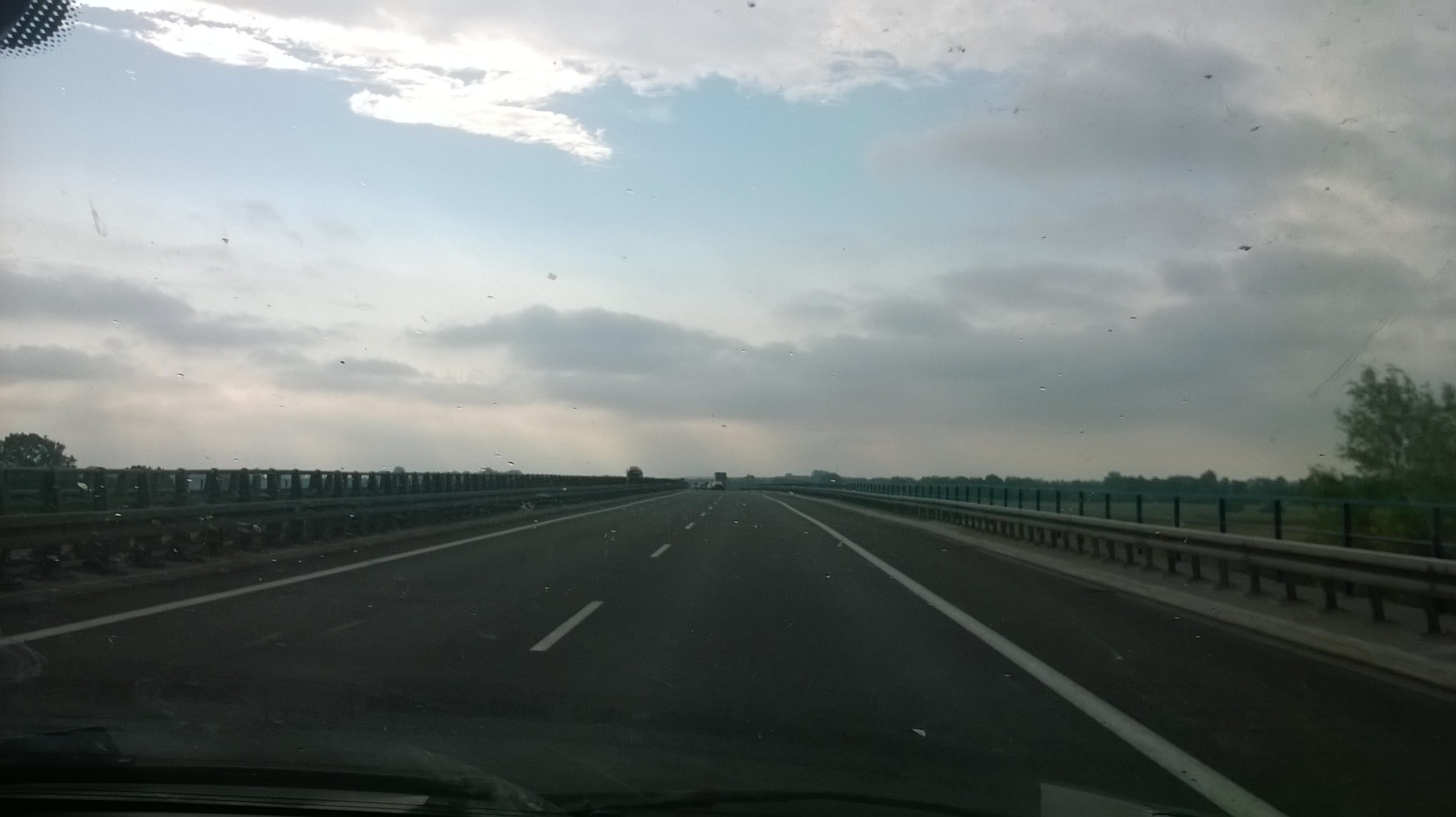 Bridge over the Warta river near Sługocin (Konin County, Greater Poland Voivodeship), carrying motorway A2 (Motorway of Freedom) and European route E30. View towards east (Konin).